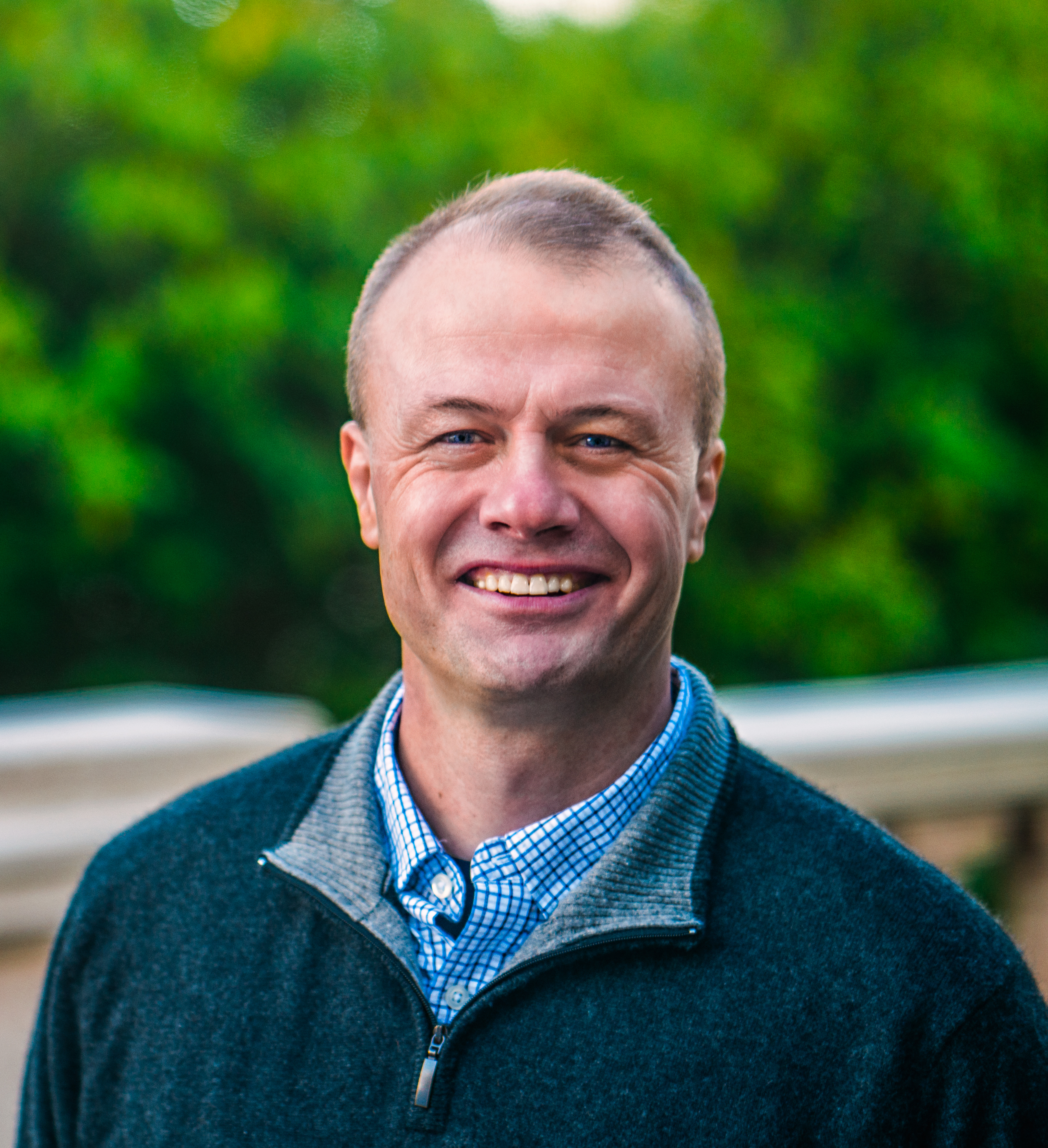 Tim Eyman is running a Republican for Governor in Washington State.